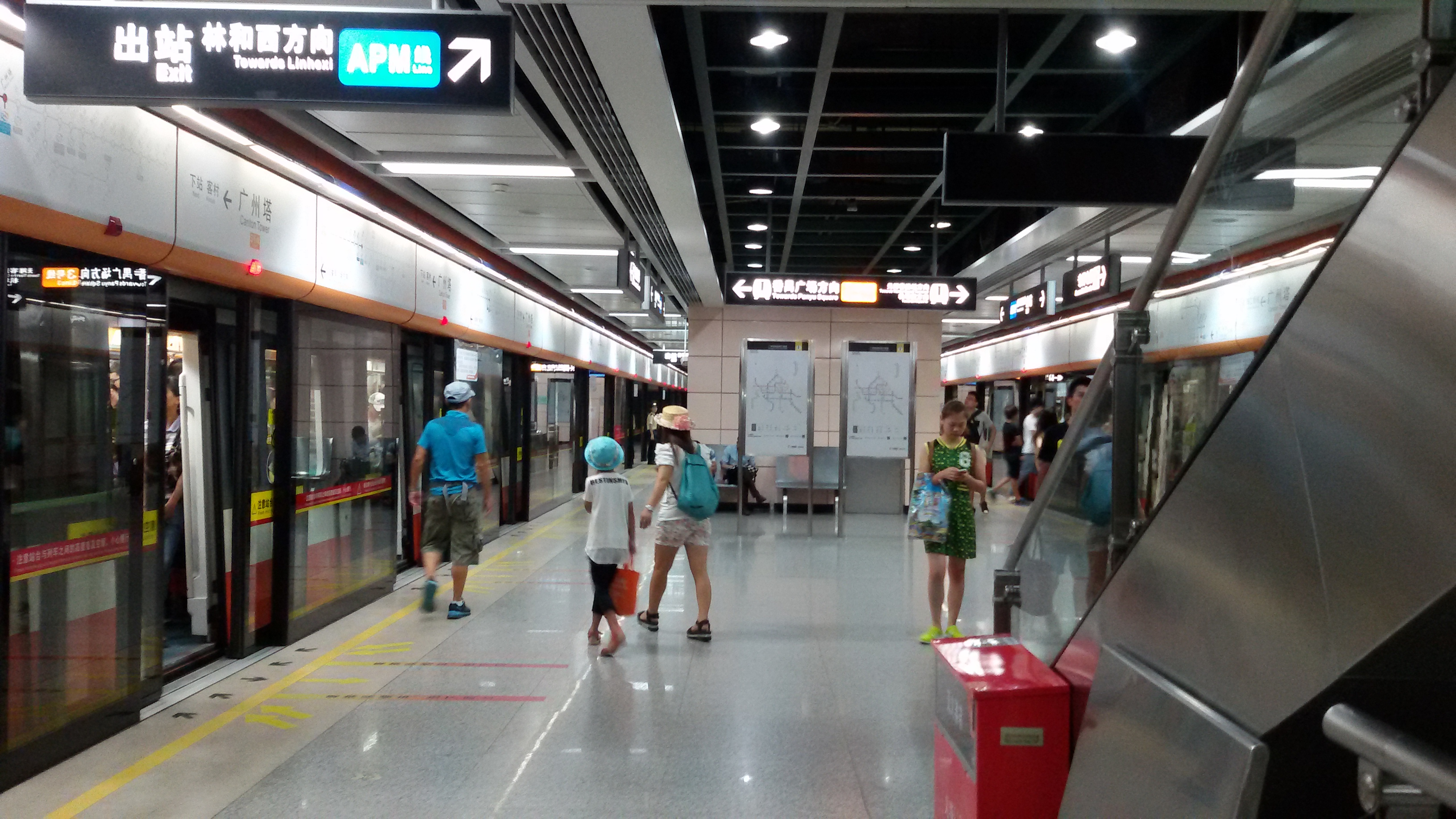 Platform for Canton Tower Station in Line 3, Guangzhou Metro 粵語: 廣州塔站嘅3號綫站台